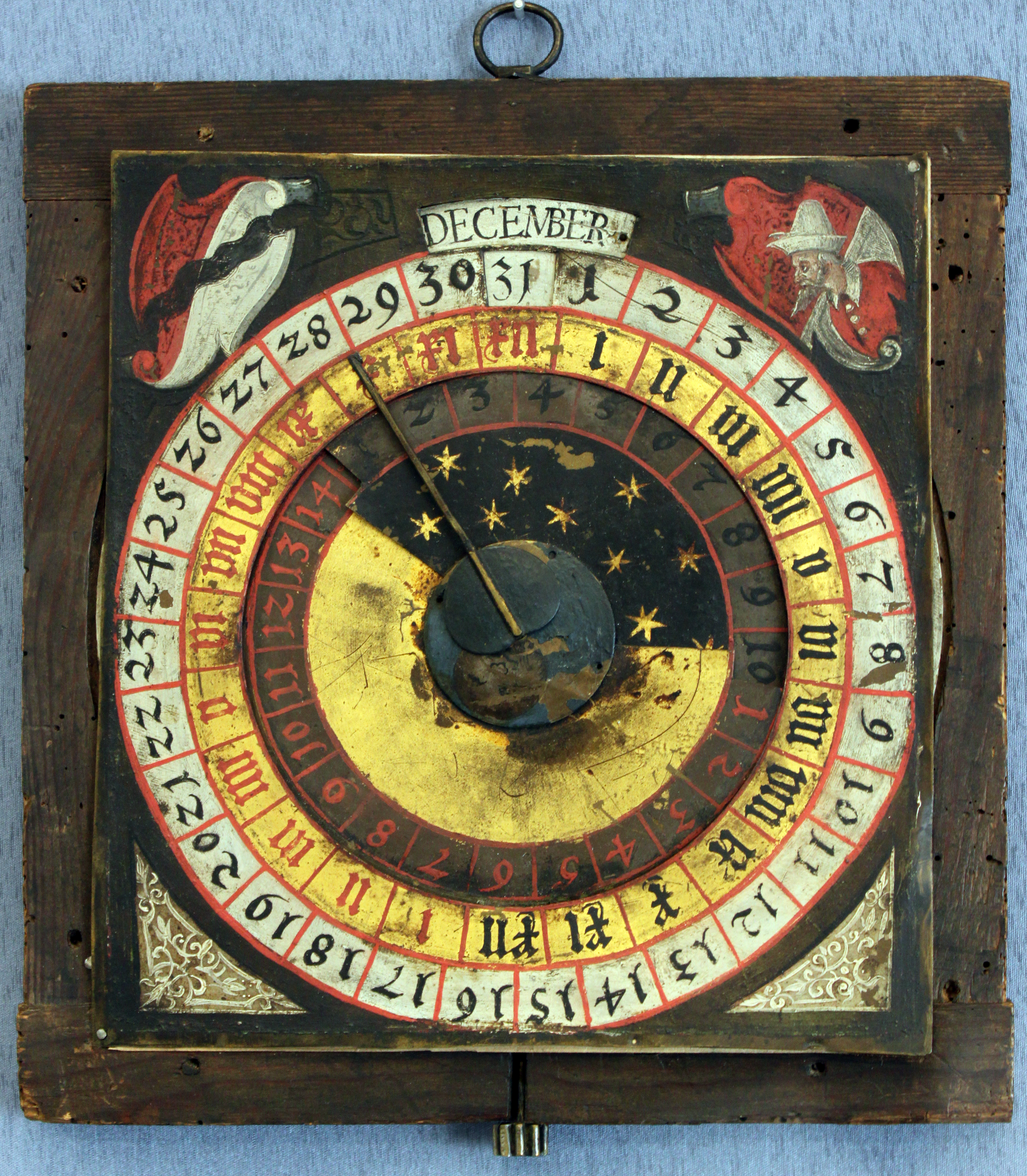 Calendary Calculator from Nuremberg, 1588; Germanic National Museum in Nuremberg